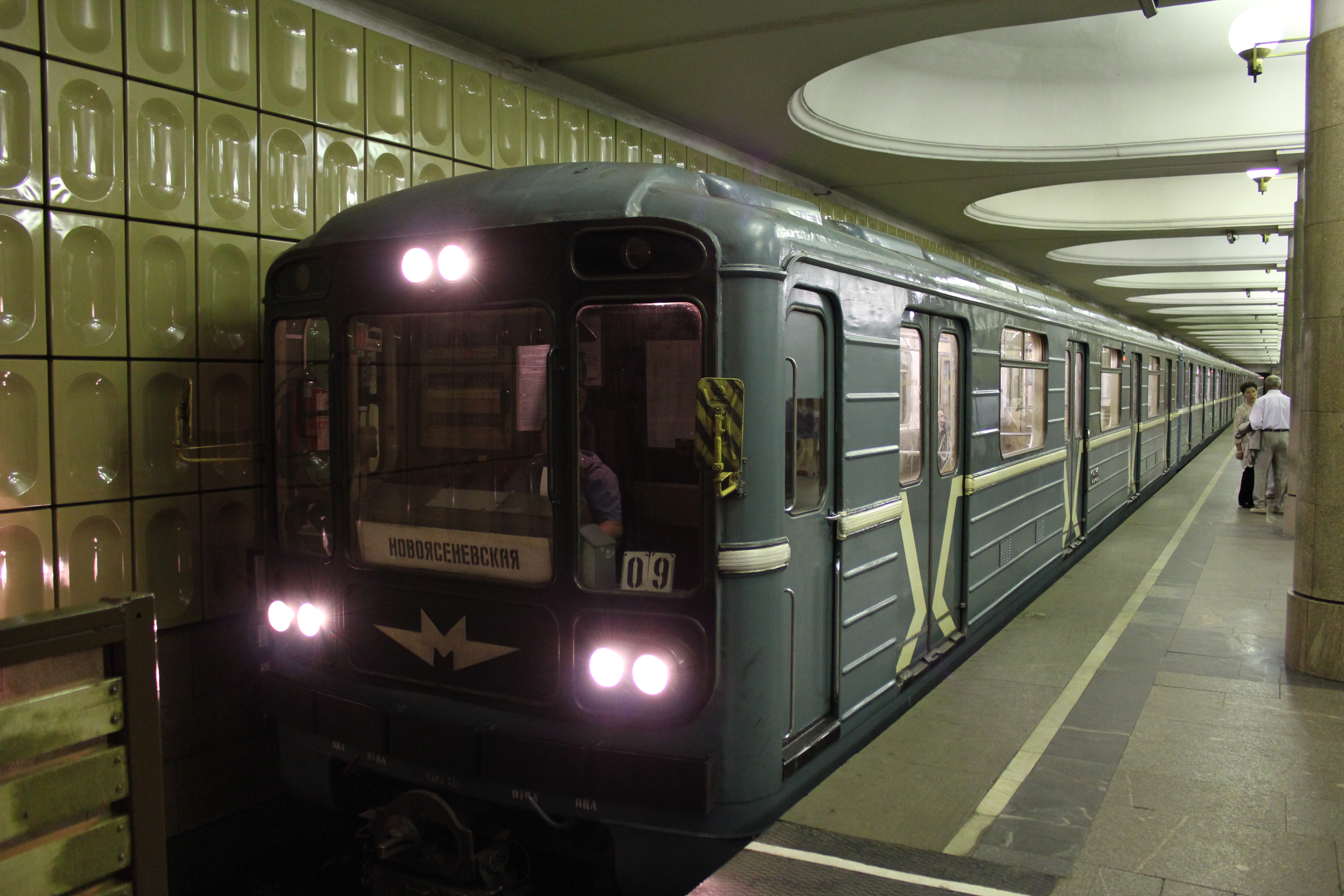 Metro car type 81-717 at Yasenevo station.